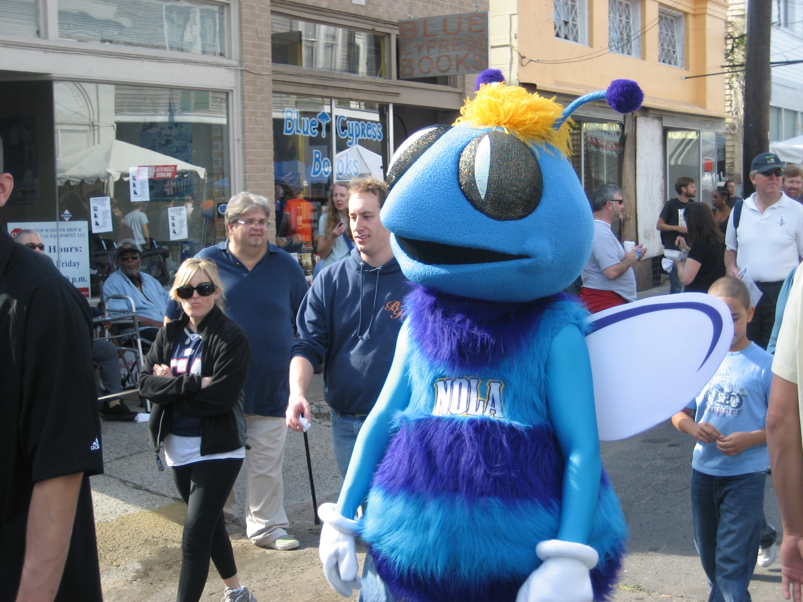 New Orleans: Oak Street during the 2nd annual Po-Boy Festival. New Orleans Hornets costume.